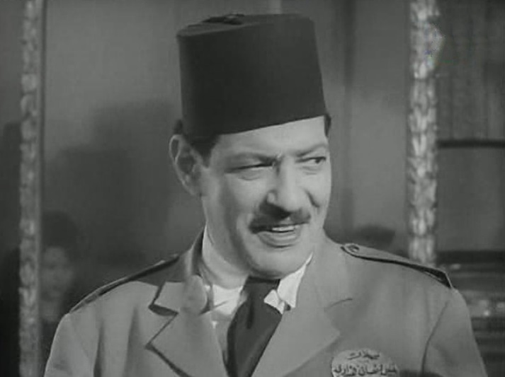 A shot of Naguib el-Rihani from a 1938 movie entitled Salama fi Kheir.